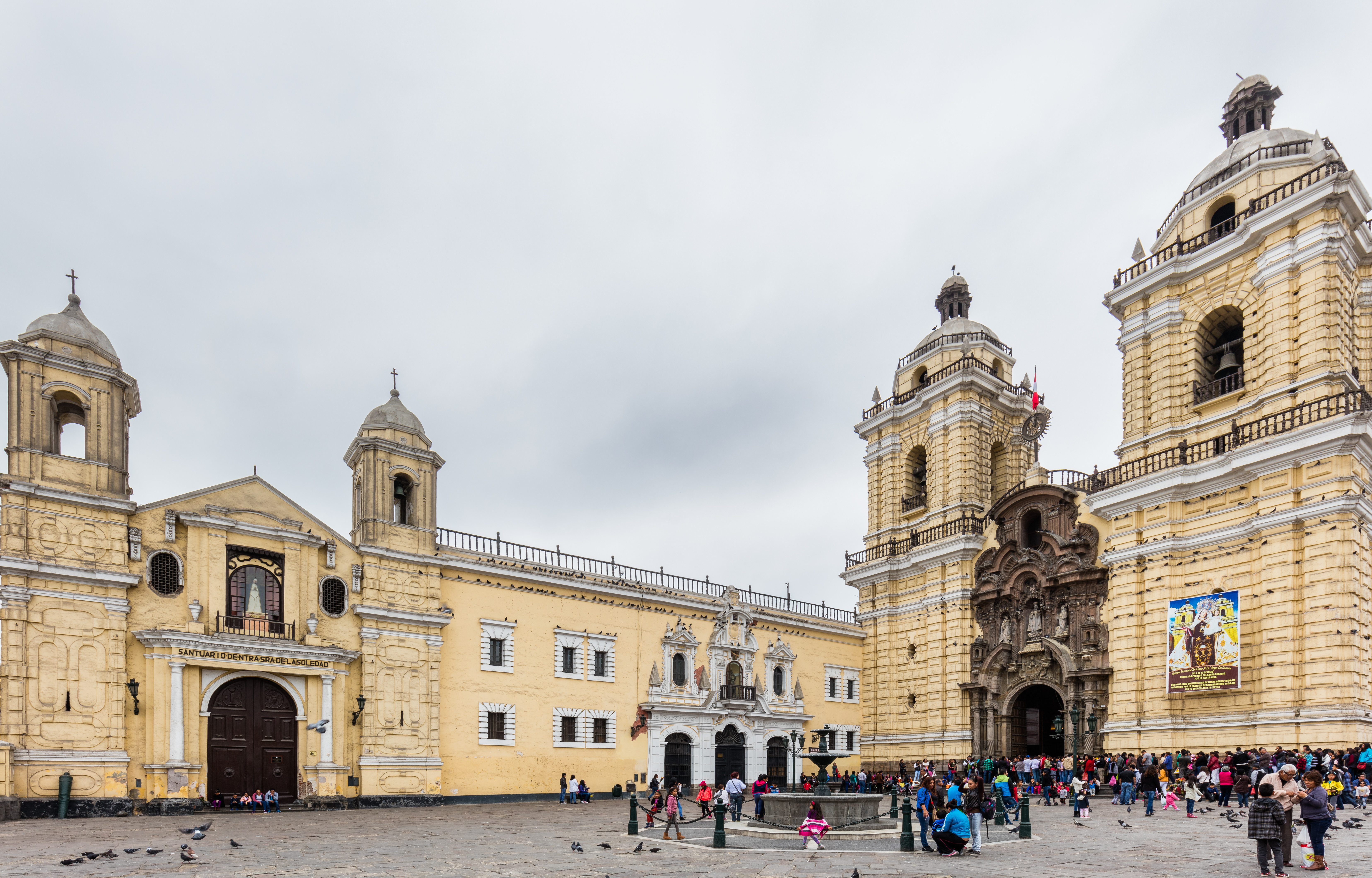 Church of St Franciscus, Lima, Peru